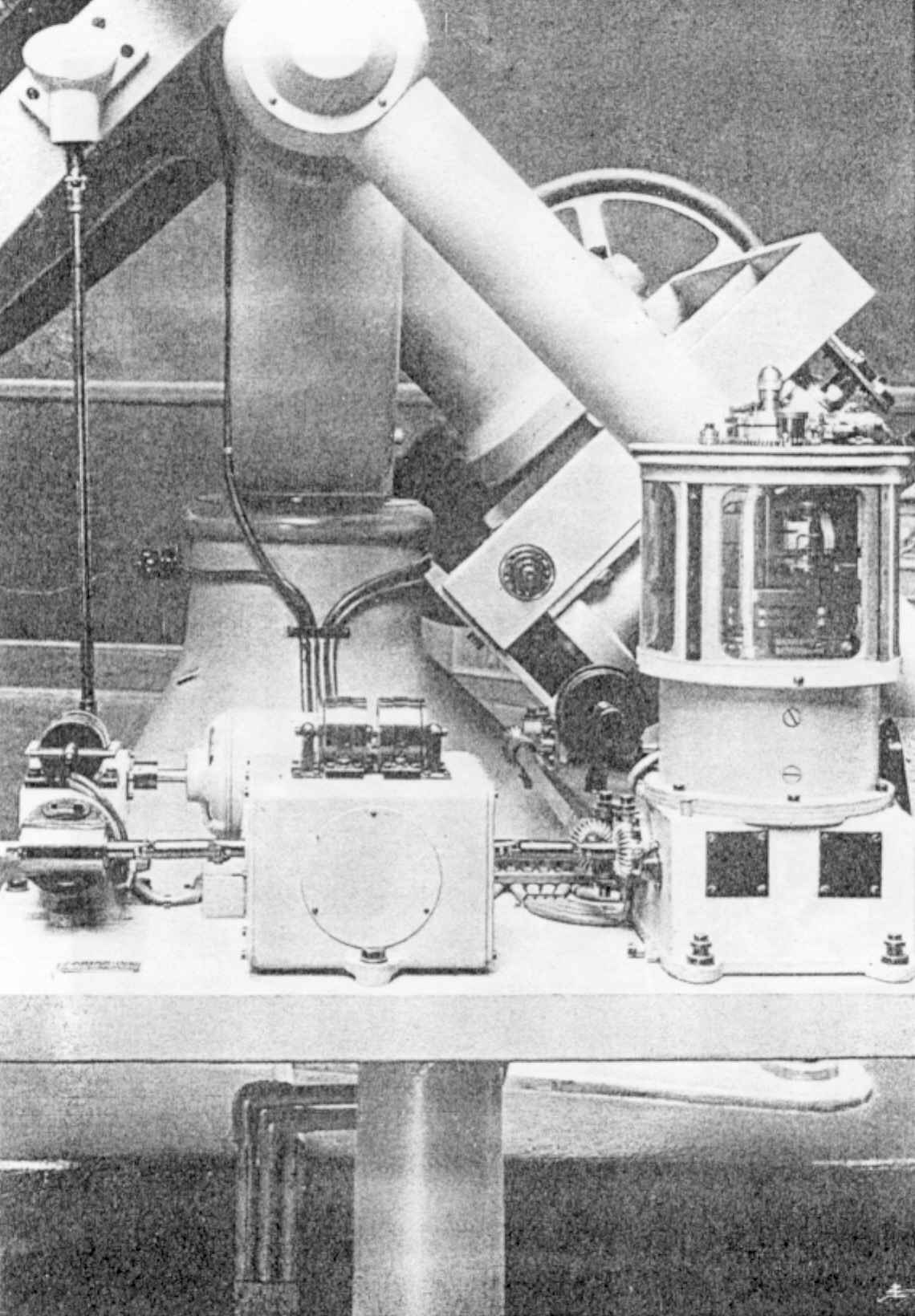 1 meter Zeiss telescope at Merate Astronomical Observatory, Merate (LC), Italy. Sideral motor regulator.